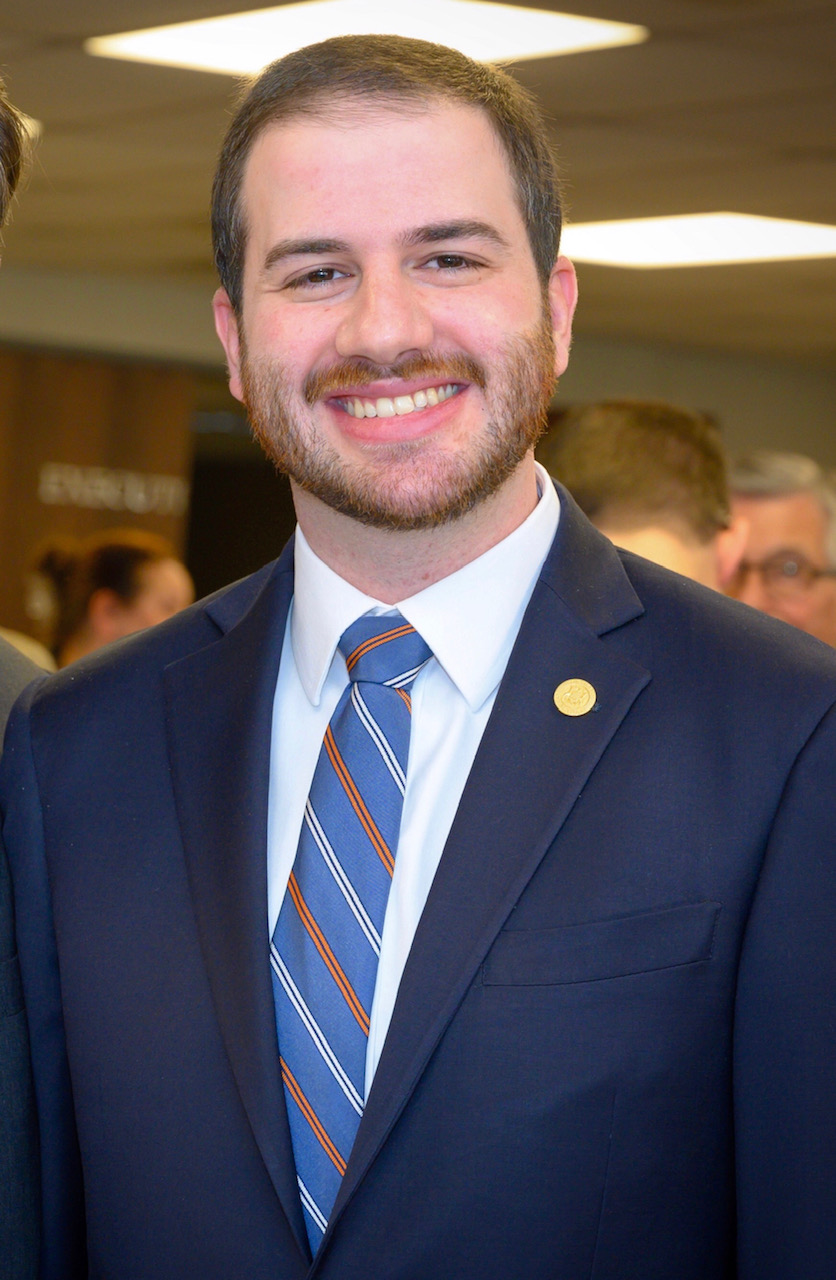 Michigan Senator Jeremy Moss 2019